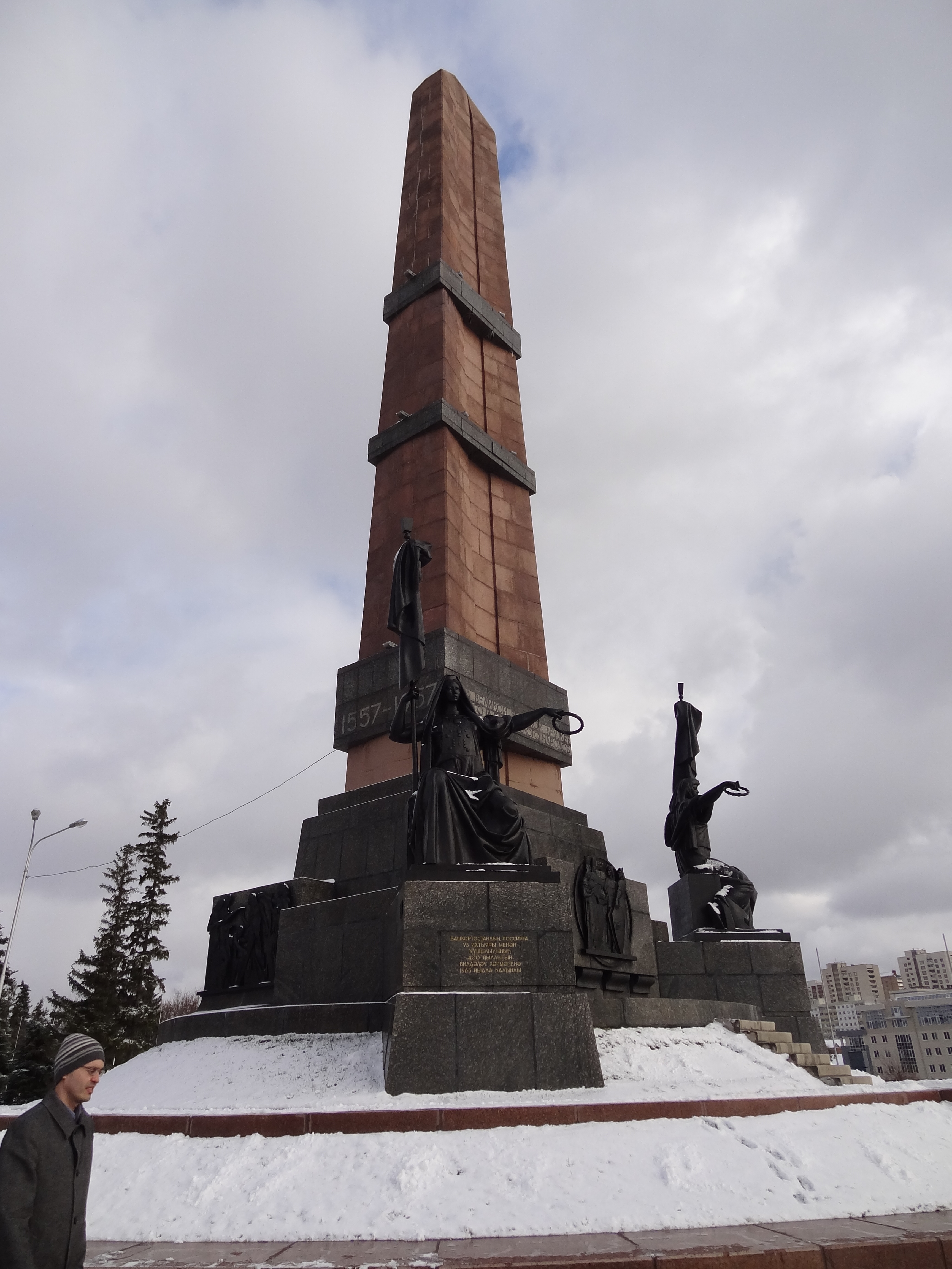 Ufa, Republic of Bashkortostan, Russia